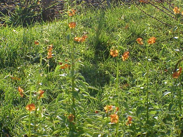 Species: Alonsoa meridionalis Family: Scrophularaceae Image No. 3